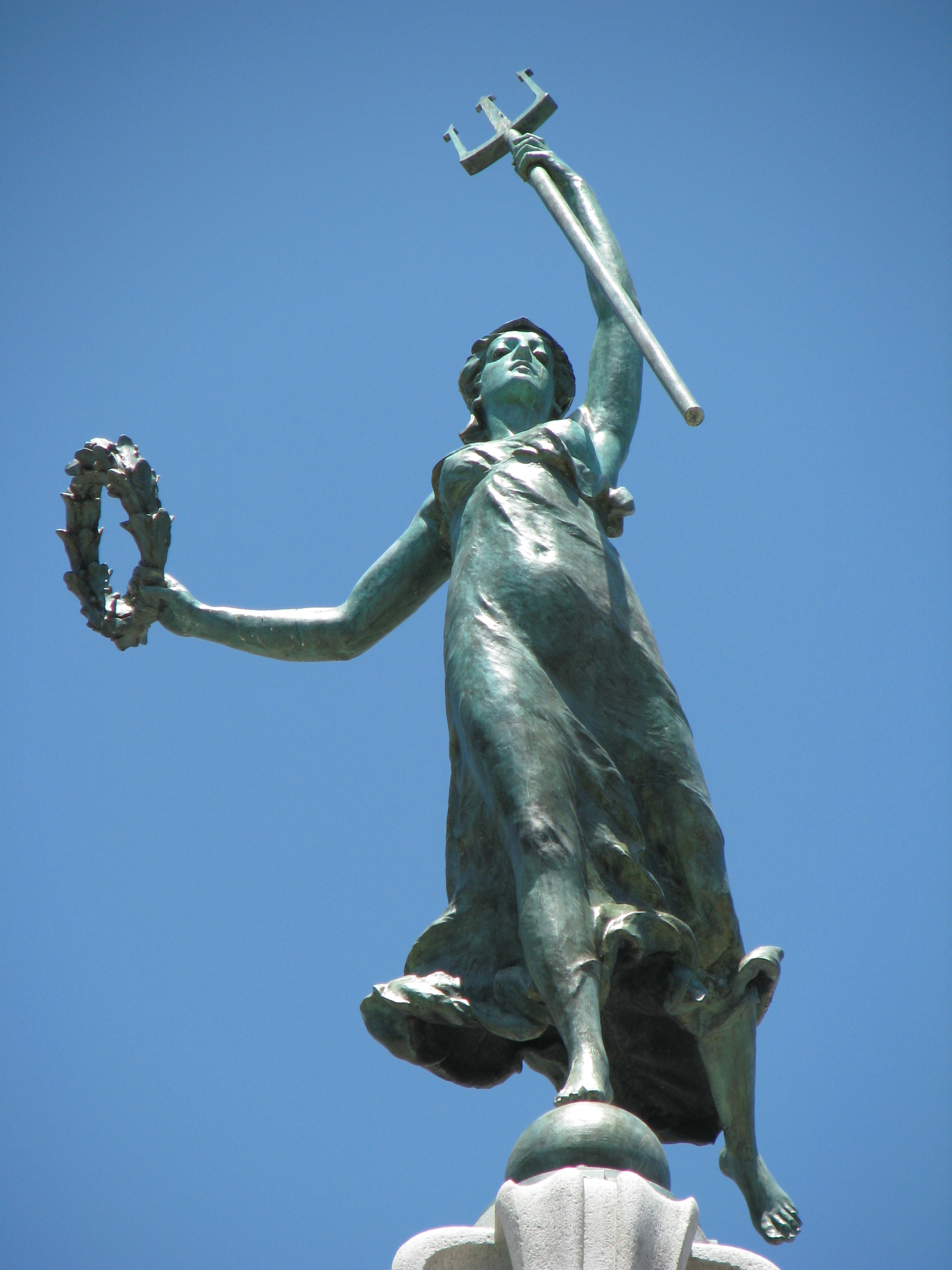 Goddess of Victory statue, holding a trident, atop the Dewey Monument in San Francisco's Union Square. Alma de Bretteville Spreckels was the model for the statue.